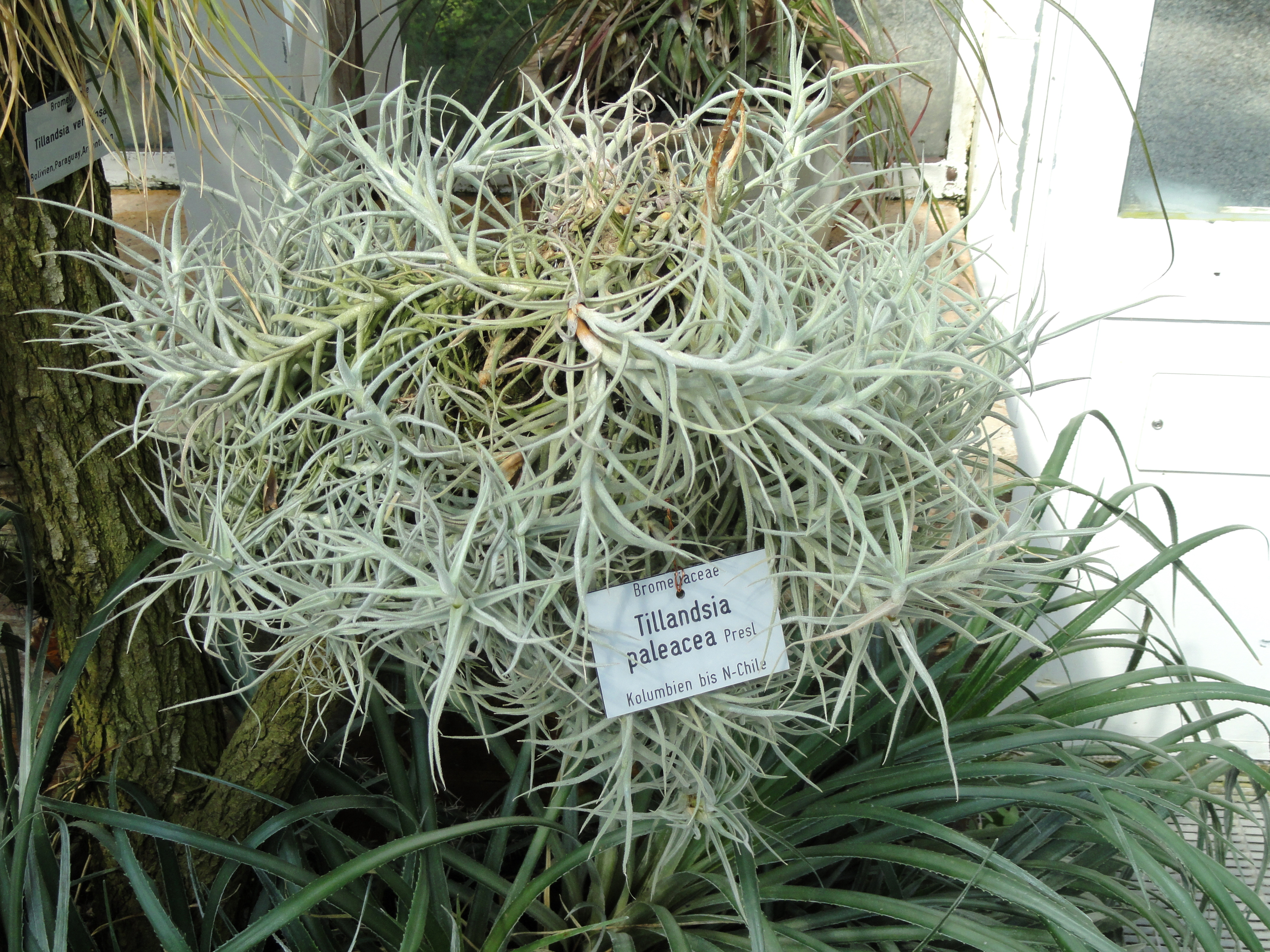 Tillandsia paleacea specimen in the Botanischer Garten München-Nymphenburg, Munich, Germany.